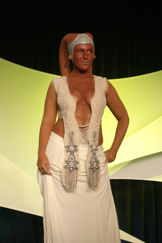 Photo by Scott Ruether. Read more at the Official Celebration IV blog. Costumes at Star Wars Celebration IV in 2007 at the Los Angeles Convention Center in Los Angeles.